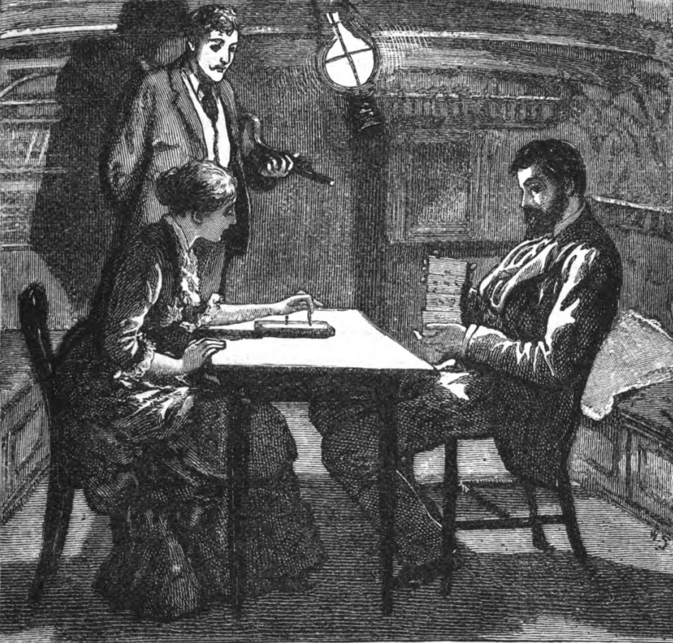 J Habakuk Jephsons Statement page 11